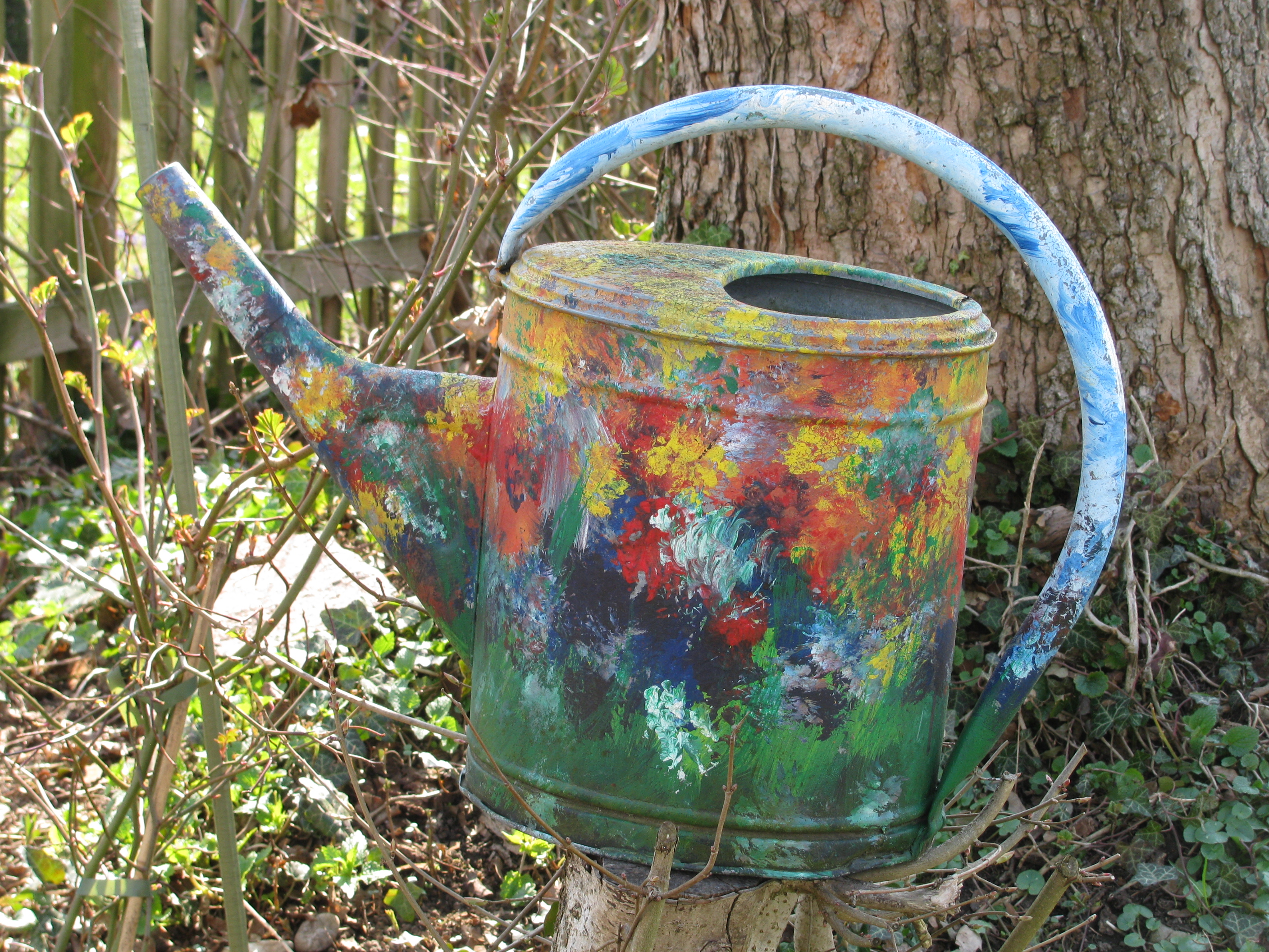 Germany - Baden-Württemberg - Bodenseekreis - Kressbronn am Bodensee: watering can inside the medicinal herb garden